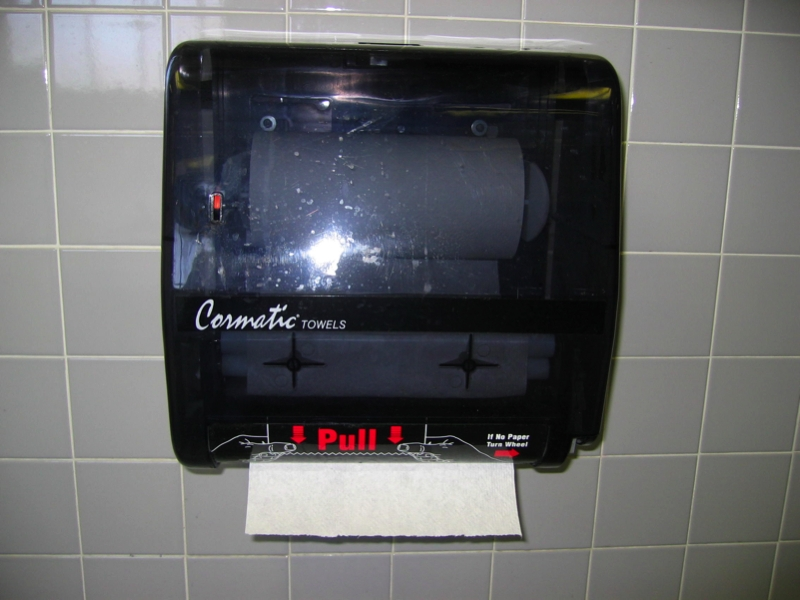 pull and tear paper towel dispenser: pull and tear, with fine teeth